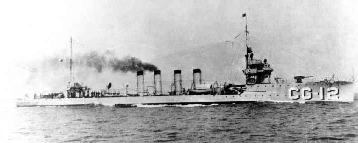 USGC Henley (CG-12) ex-USS Henley (DD-39), on Coast Guard service during the Prohibition Era